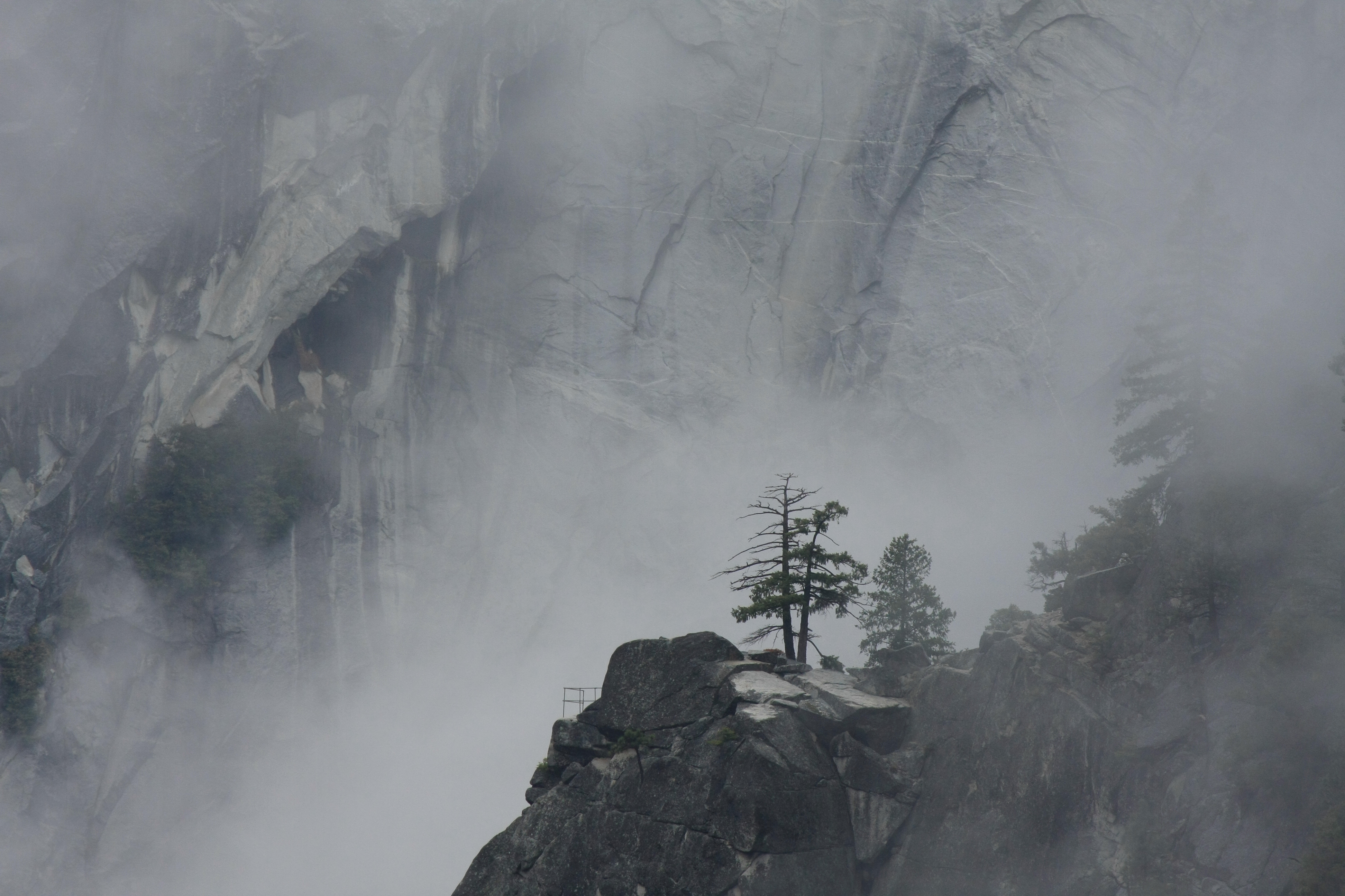 Sierra Point, Yosemite Valley, Yosemite National Park. This photo was taken while raining from the top of Vernal Fall, Yosemite National Park, California, USA. It looks like a Chinese painting.